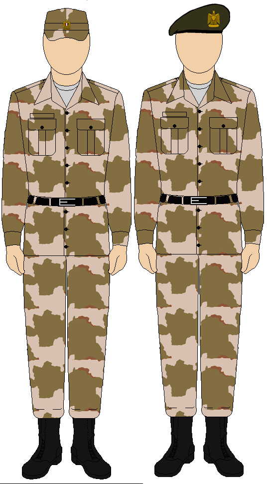 Egyptian Army camouflage uniform